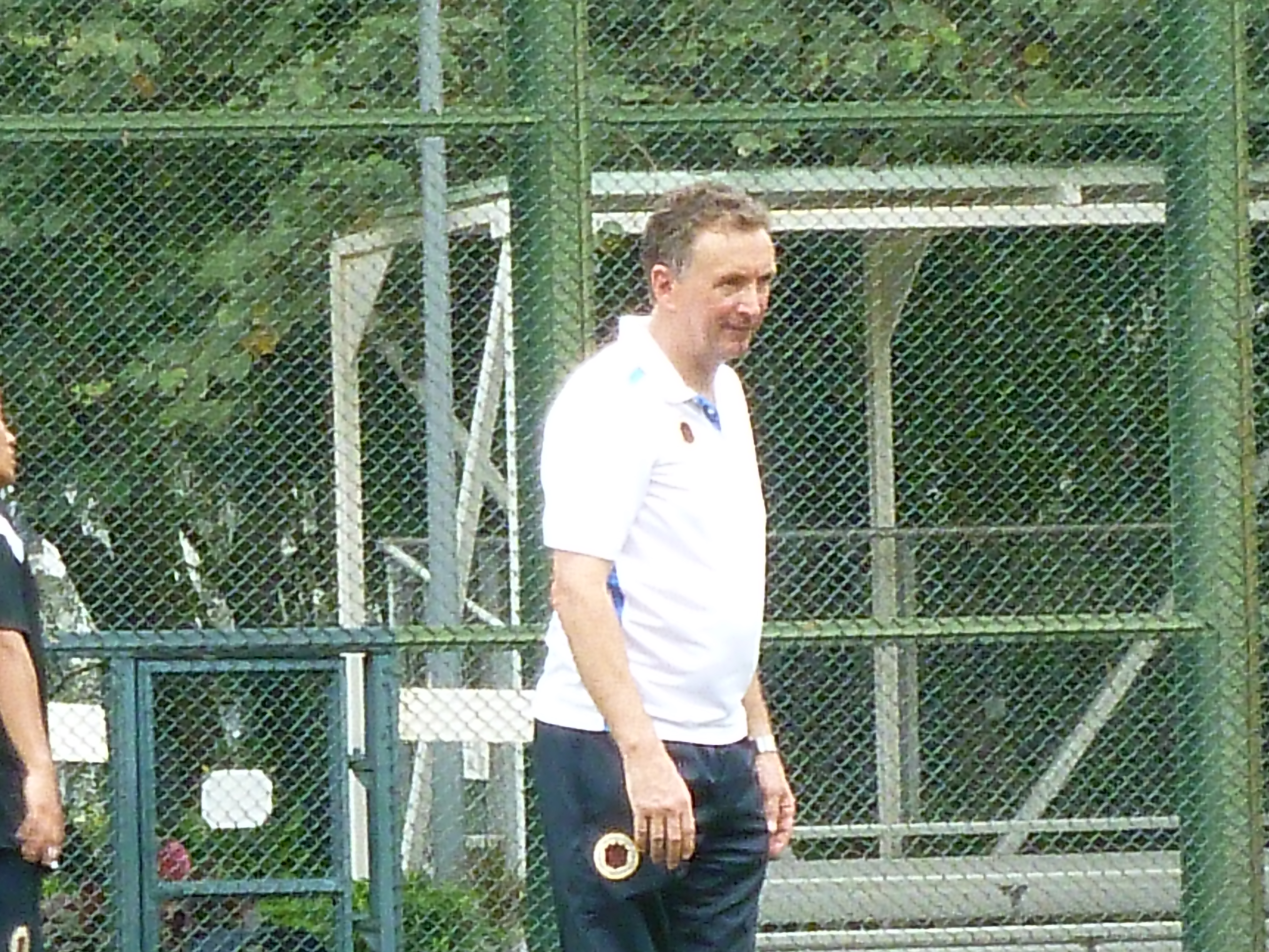 Ernie Merrick (Hong Kong National Football Team training session; 24 Apr 2012; Sai Tso Wan Recreation Ground, Lam Tin, Kowloon, Hong Kong)